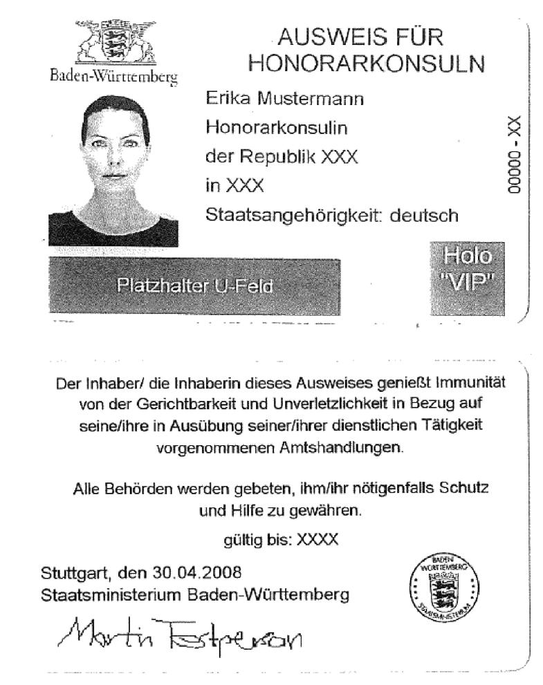 Specimen of an Identity Card for Honorary Consuls in Germany in cheque card size